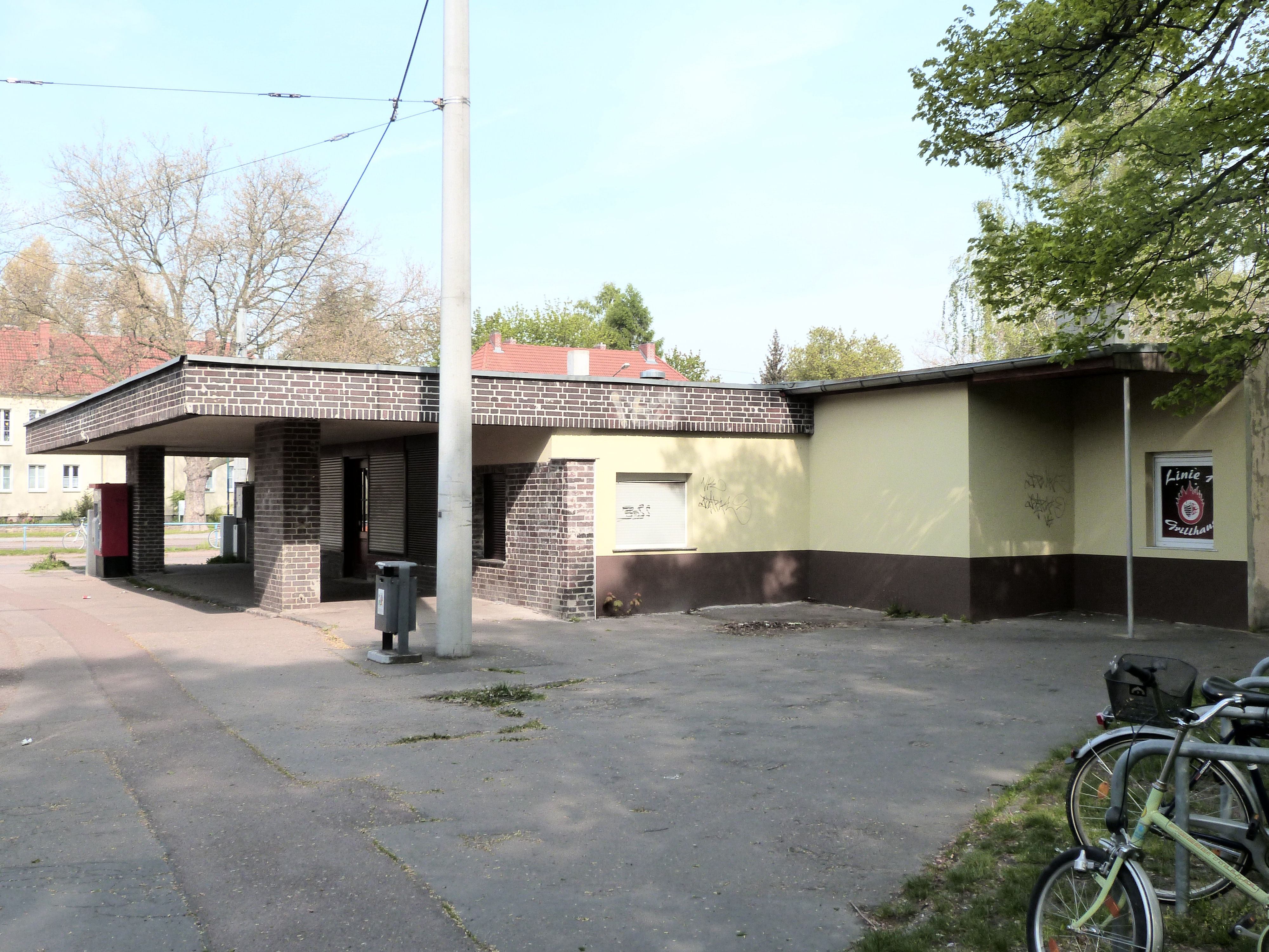 Tram waiting room, Dessauer Strasse No. 153 in Halle (Saale)